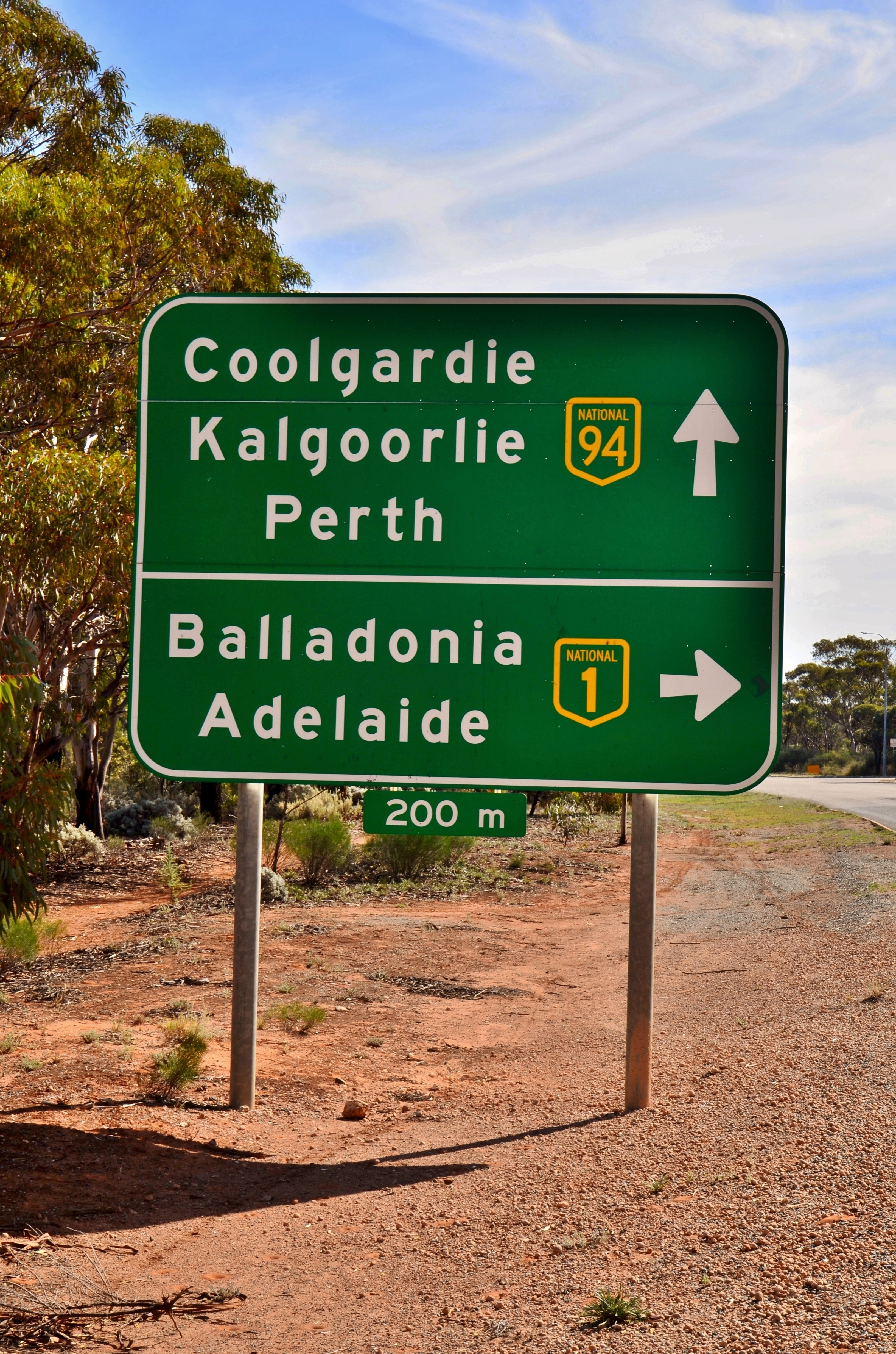 Highway sign near the intersection between the Coolgardie–Esperance Highway and the Eyre Highway at Norseman, Western Australia.